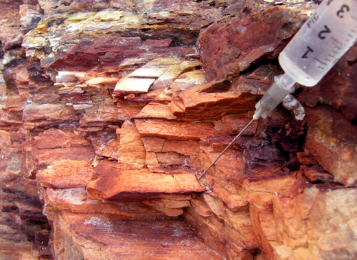 Unstable temperature and relative humidity, different rates of expansion and contraction, salt movement, living plant roots and other factors cause cracking in fossil wood. In order to prevent dirt and contemporary vegetation from accumulating into the cracks, and prevent breakages, solutions of especially prepared consolidants are injected in surface cracks. [Kyriazi, E. and Zouros, N. (2008) ‘Conserving the Lesvos Petrified Forest’, Studies in Conservation 53 (Supplement-1 - Conservation and Access: Contributions to the 2008 IIC Congress), London, p. 141-145] The beautiful rose colours of the silicified fossil wood in this picture are due to the presence of manganese ions.